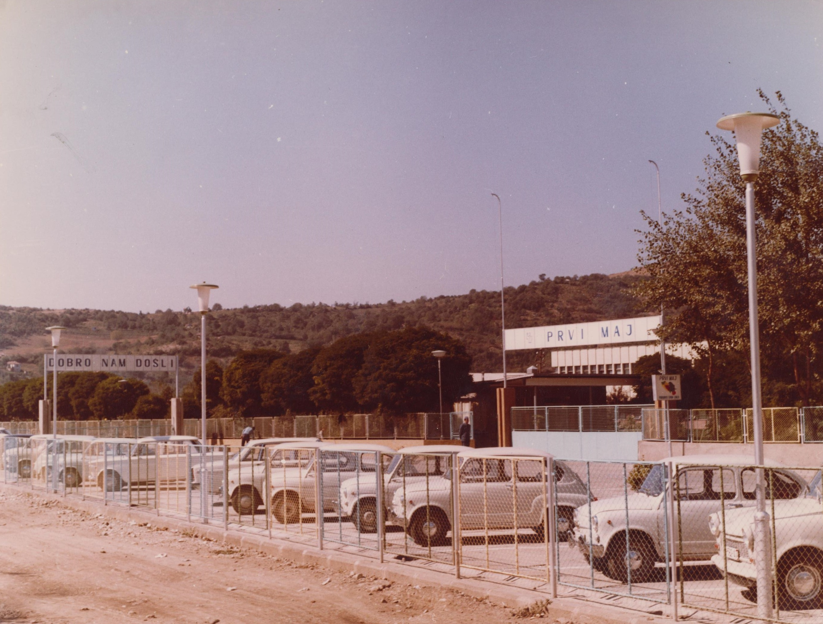 Parking lots of Prvi maj